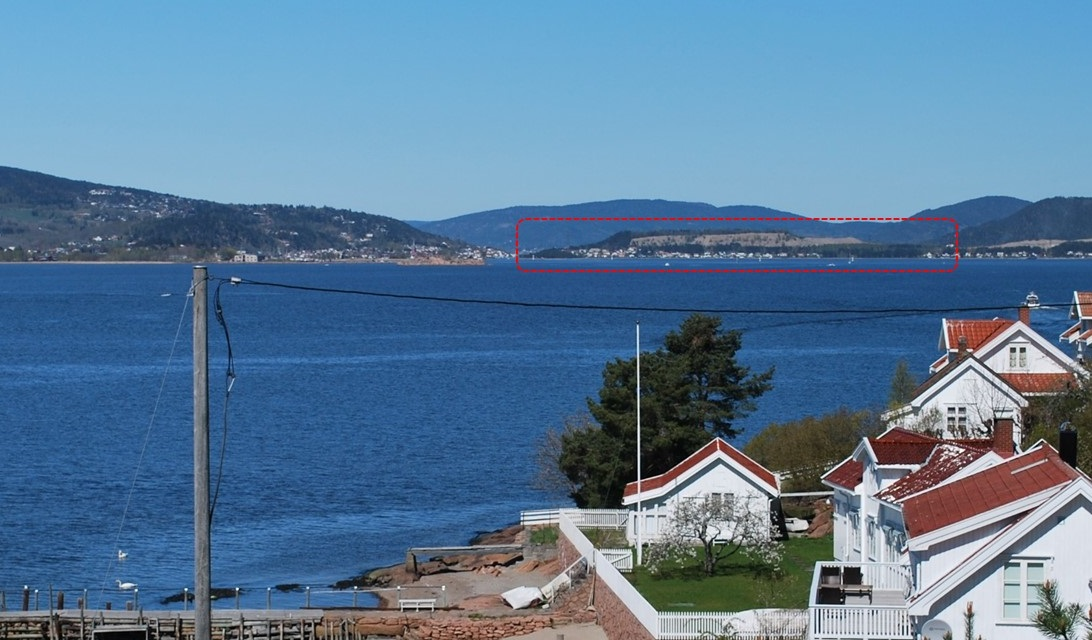 Morain at Svelvik (highlighted) in Drammensfjorden, seen from Holmsbu village.